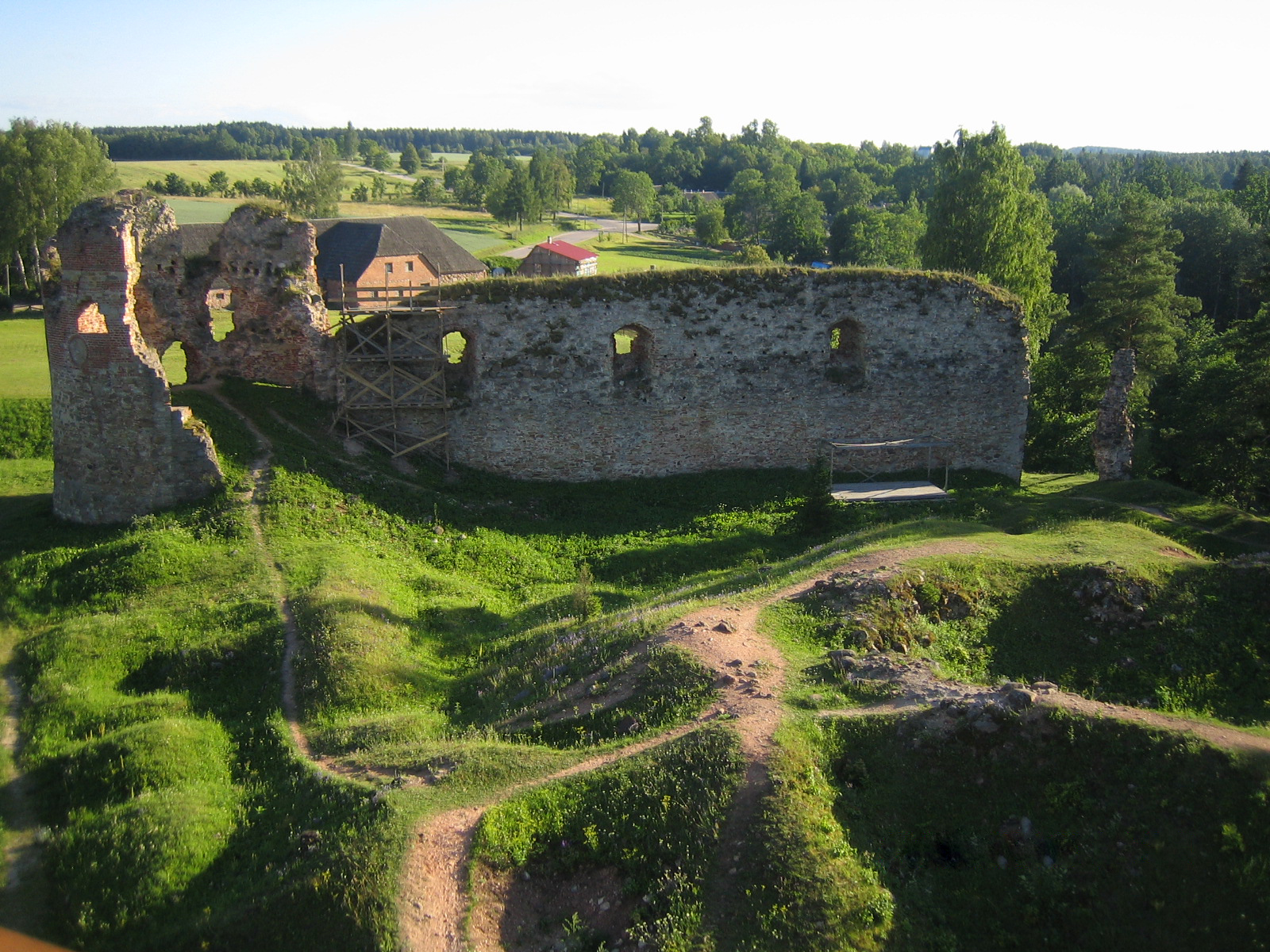 Ruins of Vastseliina Castle, a view from Northeast Tower